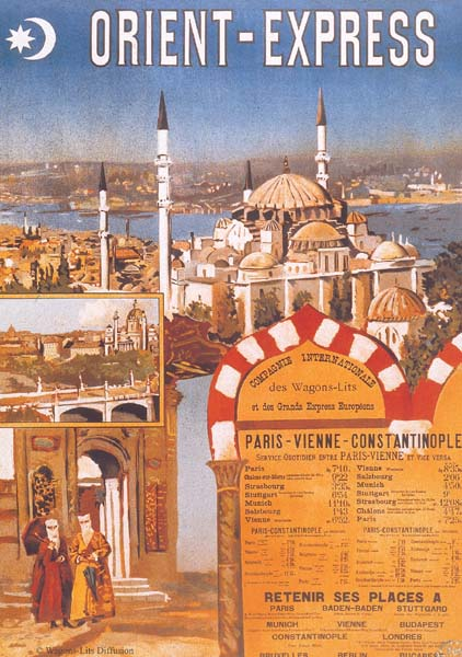 poste CIWL (c) wagons-lits diffusion, Paris